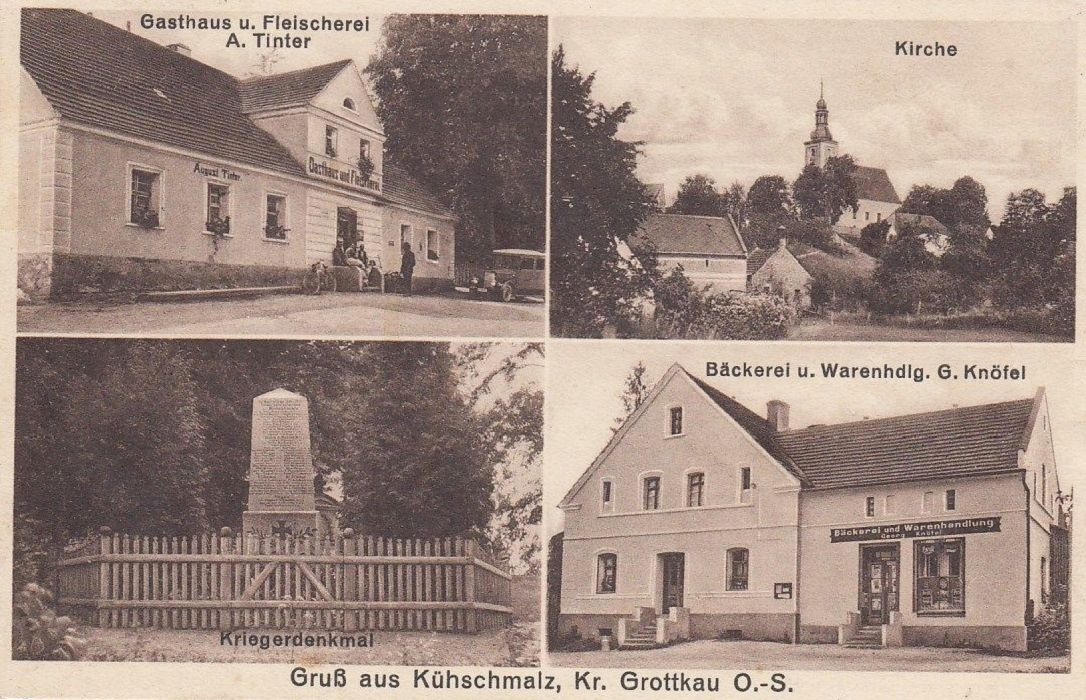 Kühschmalz, Upper Silesia, 1936